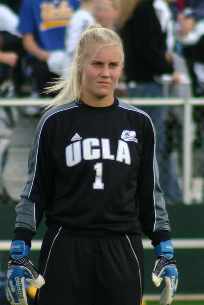 UNC Tar Heels (women) beat UCLA Bruins 2-0 on goals from Casey Nogueira and Heather O'Reilly in the semifinal of the 2006 Women's College Cup on Friday, December 1st at SAS Soccer Park in Cary, NC